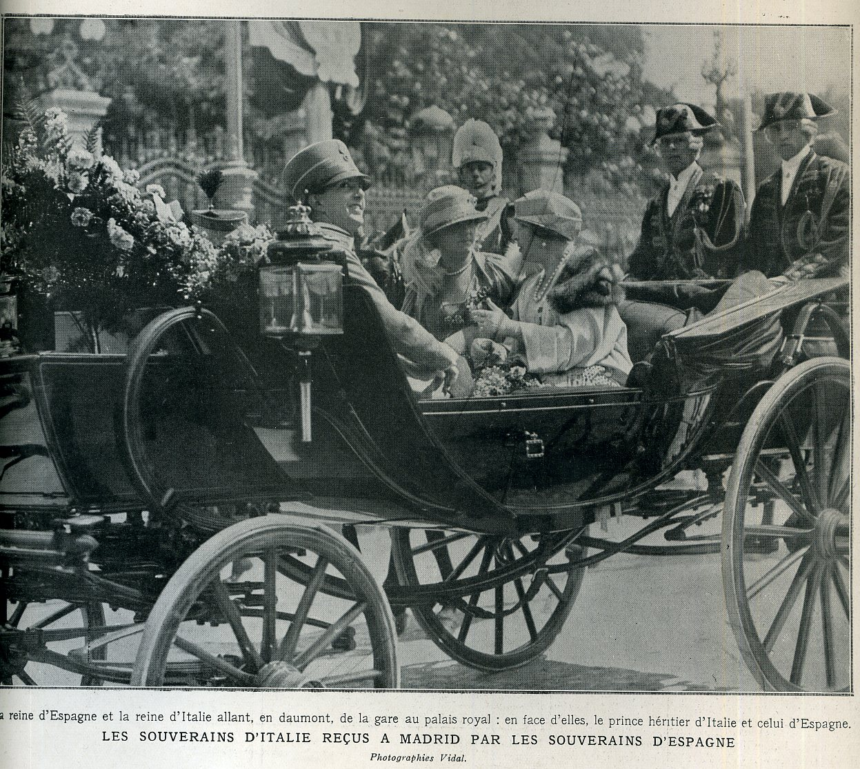 The queens of Italy and Spain on State visit in Spain